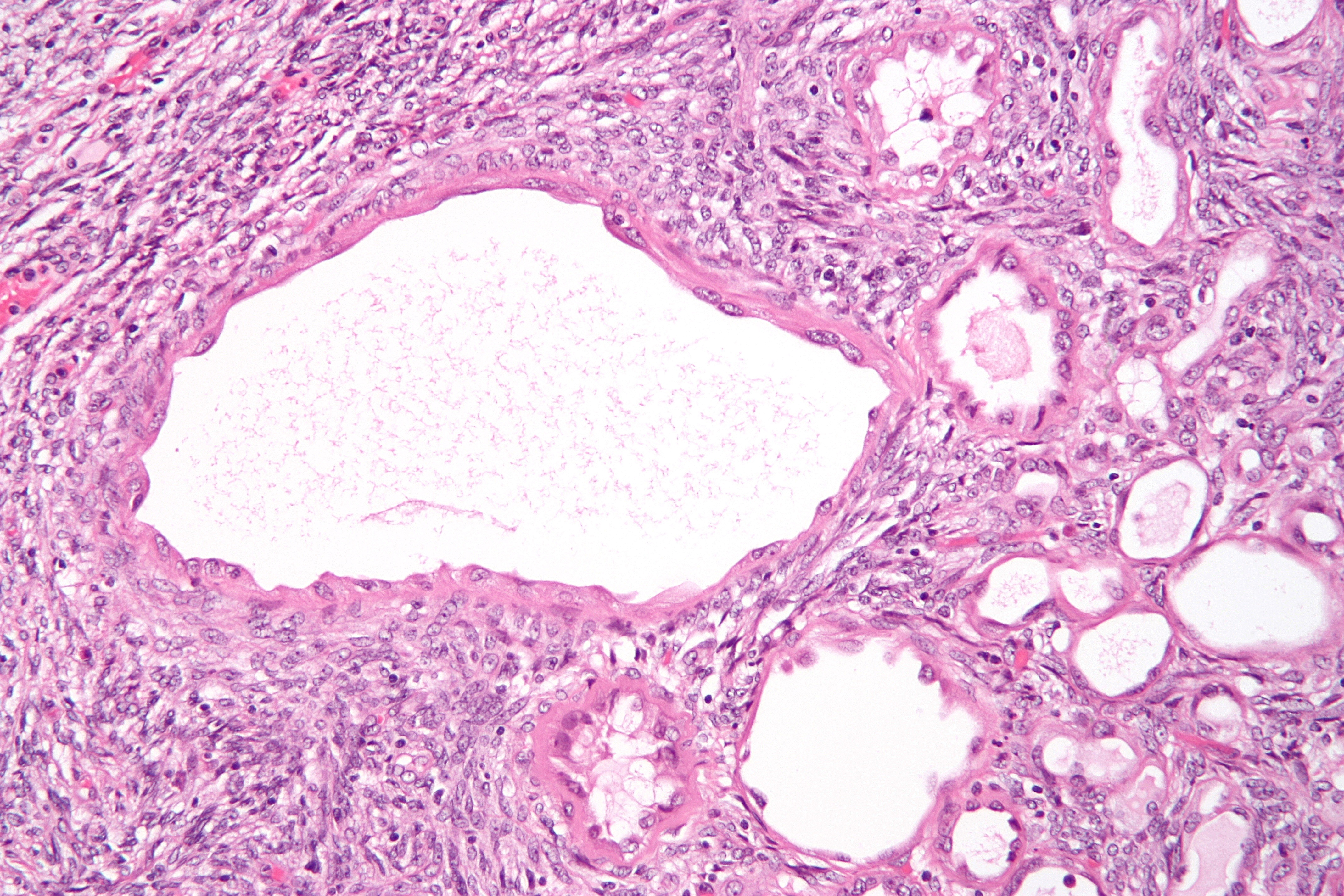 High magnification micrograph of a cystic nephroma, also know as mixed epithelial stromal tumour (MEST) and renal epithelial stromal tumour (REST), is a rare benign renal neoplasm. H&E stain. Characteristics of cystic nephromas: Cysts lined by a simple epithelium with a hobnail morphology, i.e. the nuclei of the cyst lining epithelium bulges into the lumen of the cysts, Ovarian-like stroma that has a: Spindle cell morphology, and has a Basophilic cytoplasm, that stains positive for: Estrogen receptor (ER), progesterone receptor (PR) and CD10 (like ovarian stroma). See also Image:Cystic_nephroma_low_mag.jpg - low magnification micrograph of the same neoplasm. Image:Cystic_nephroma_intermed_mag.jpg - intermediate magnification micrograph of the same neoplasm.